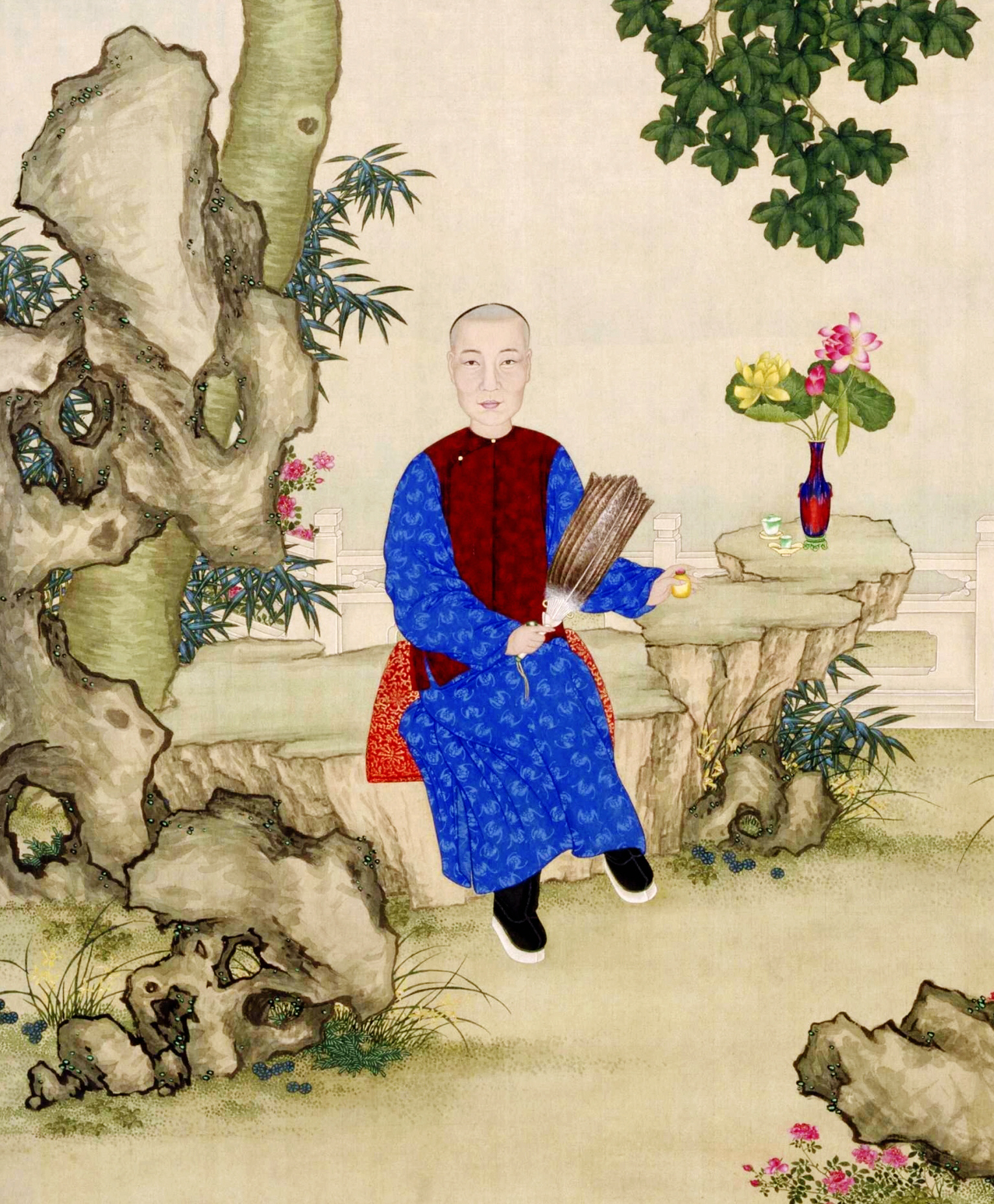 Xianfeng Emperor